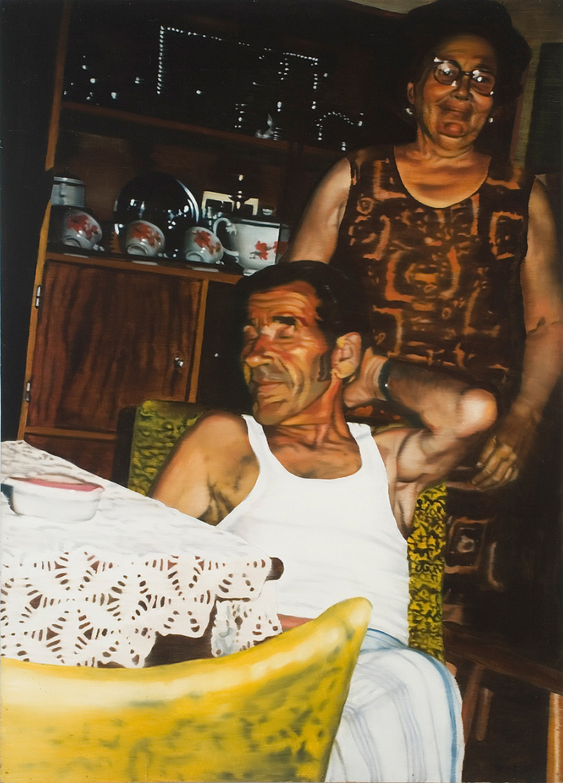 László Fehér, Genre Painting, 1979, Oil on wood-fibre, 157 x 112 cm